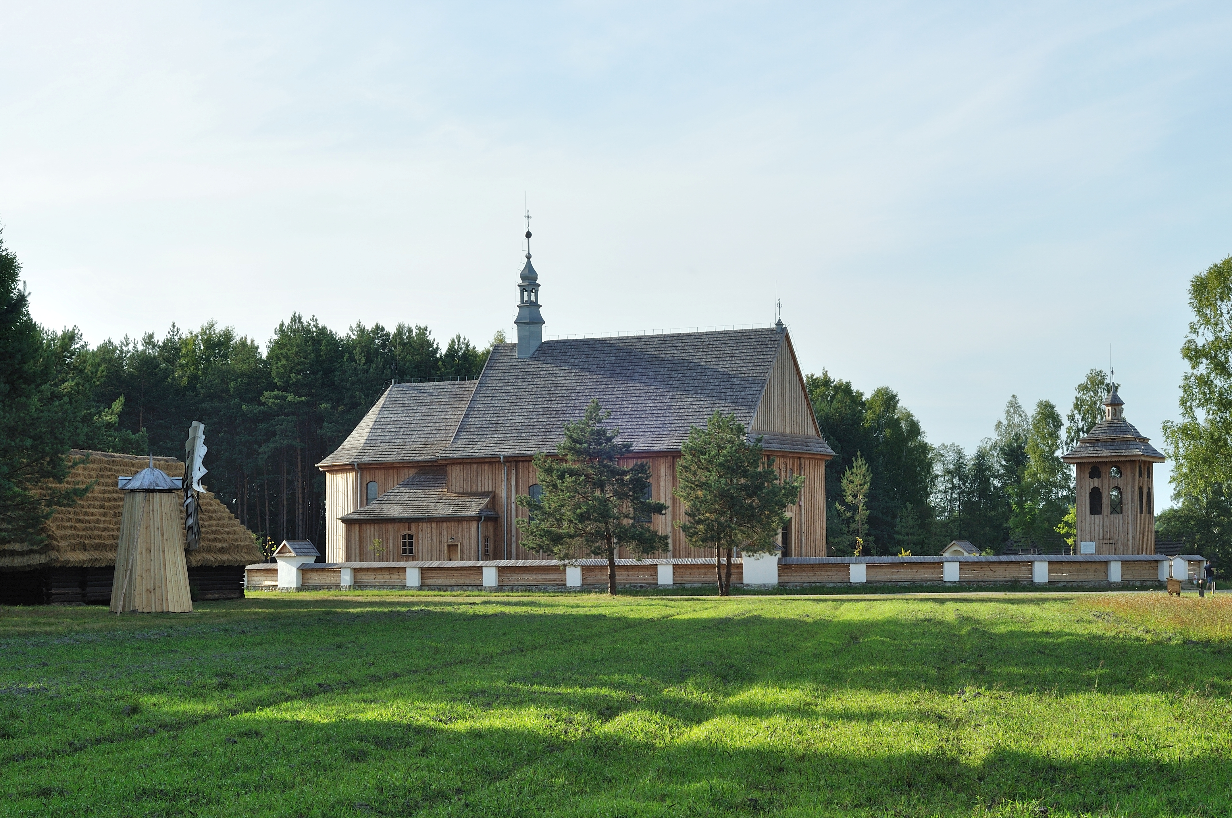 Saint Mark church from Rzochów